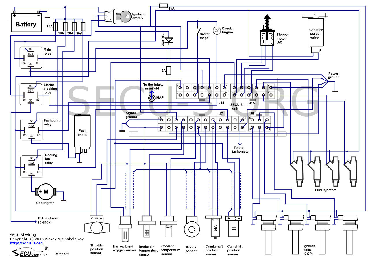 SECU-3i wiring diagram example, 4 injectors, 4 ignition coils, stepper IAC, canister purge valve